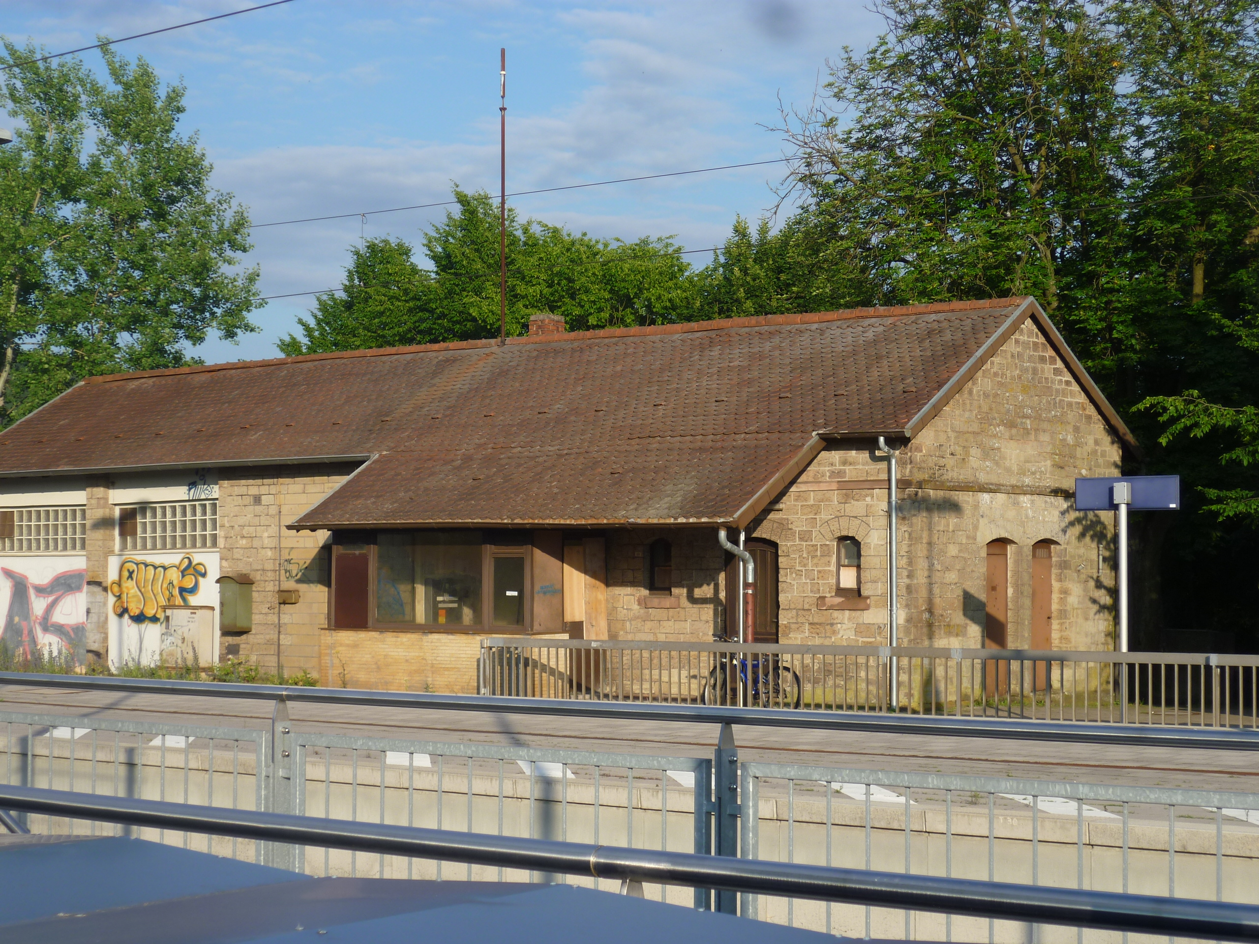 Train station Kirkel